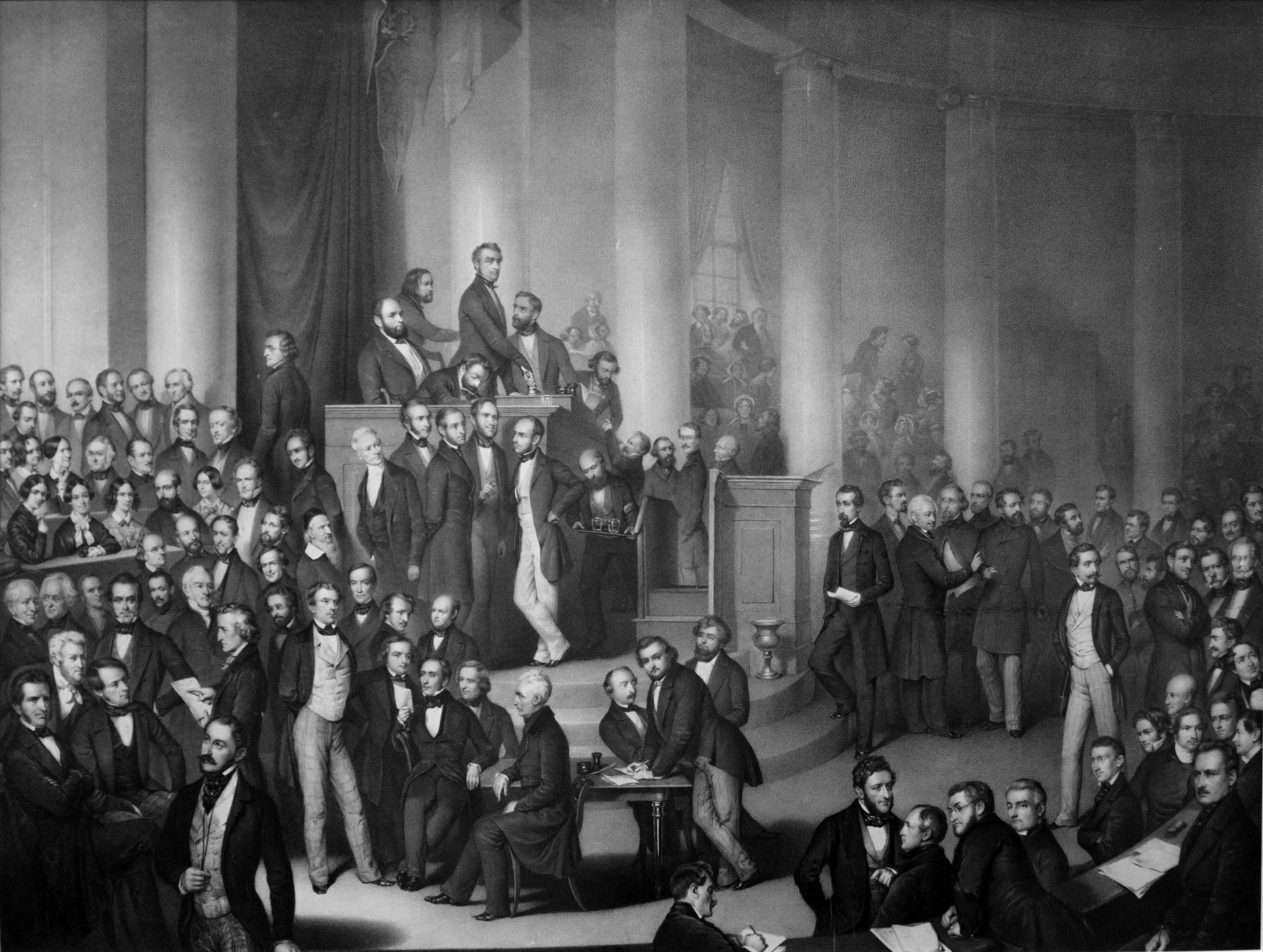 Representatives of the National Assembly in the Frankfurt Paul's Church